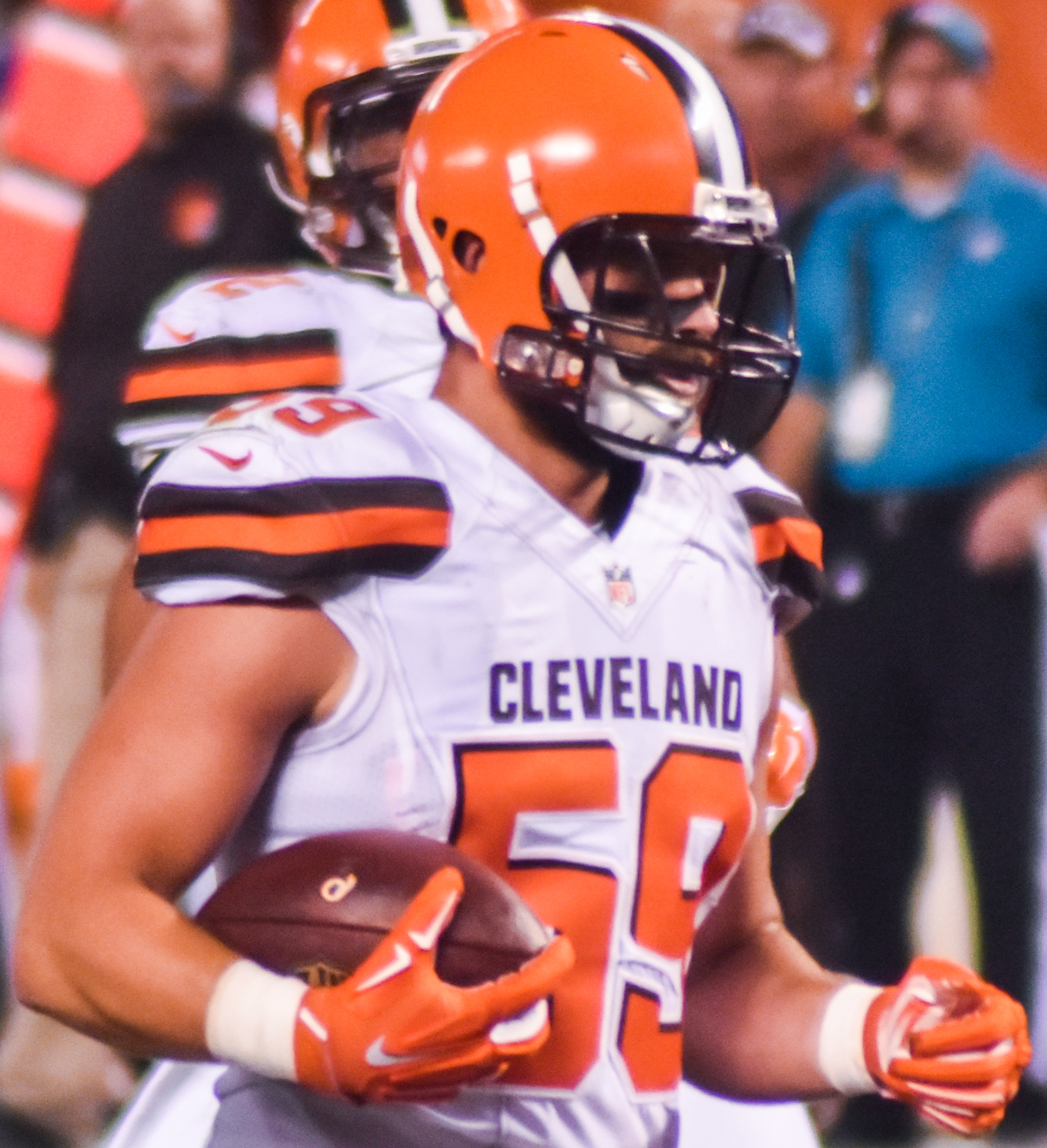 Browns vs Redskins